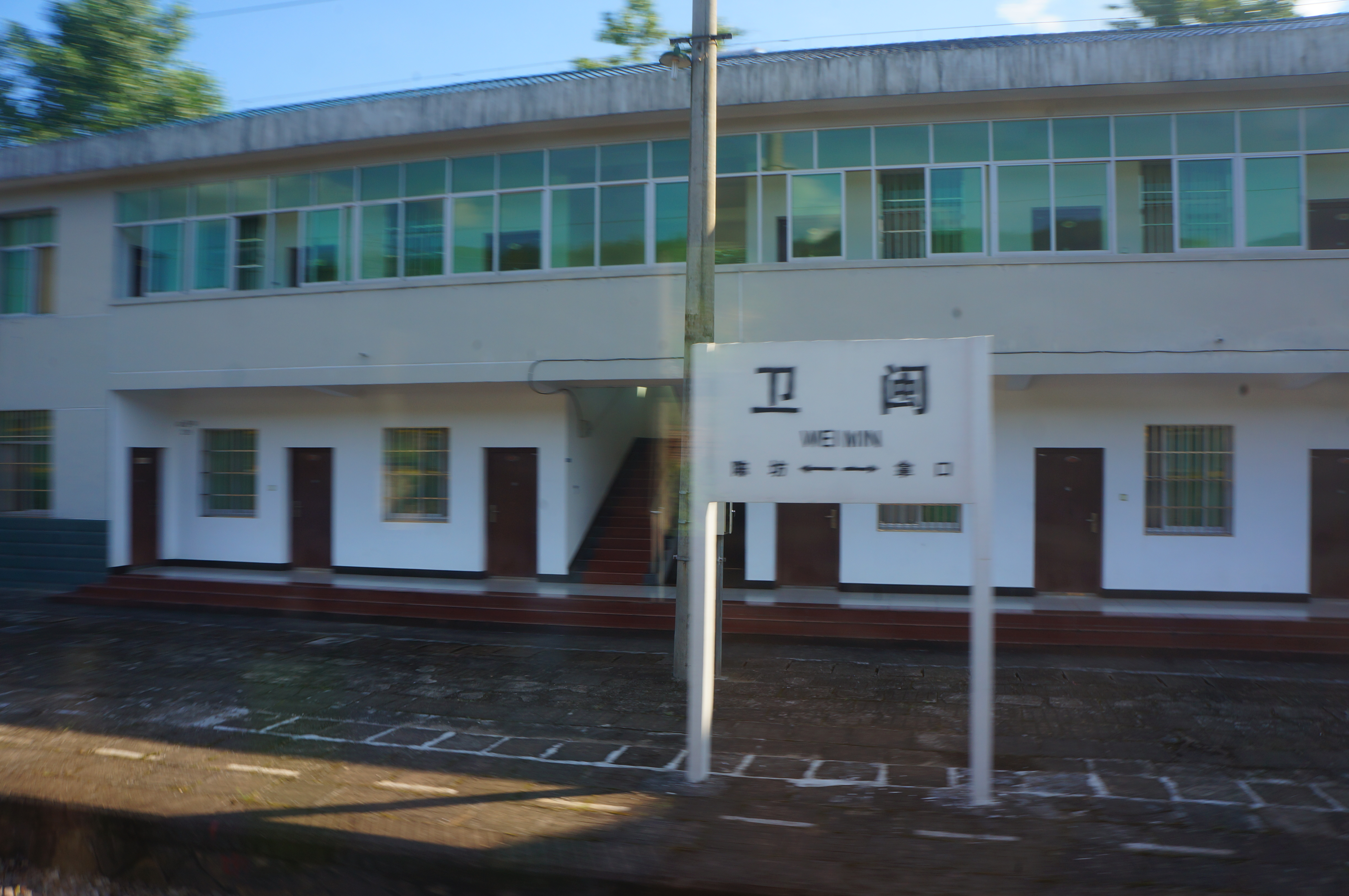 201806 Weimin Station Building